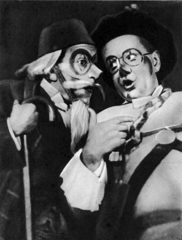 Pantalone_and_Tartalia, "Princess Turandot" Carlo Gozzi, performance by Yevgeny Vakhtangov}, 1922